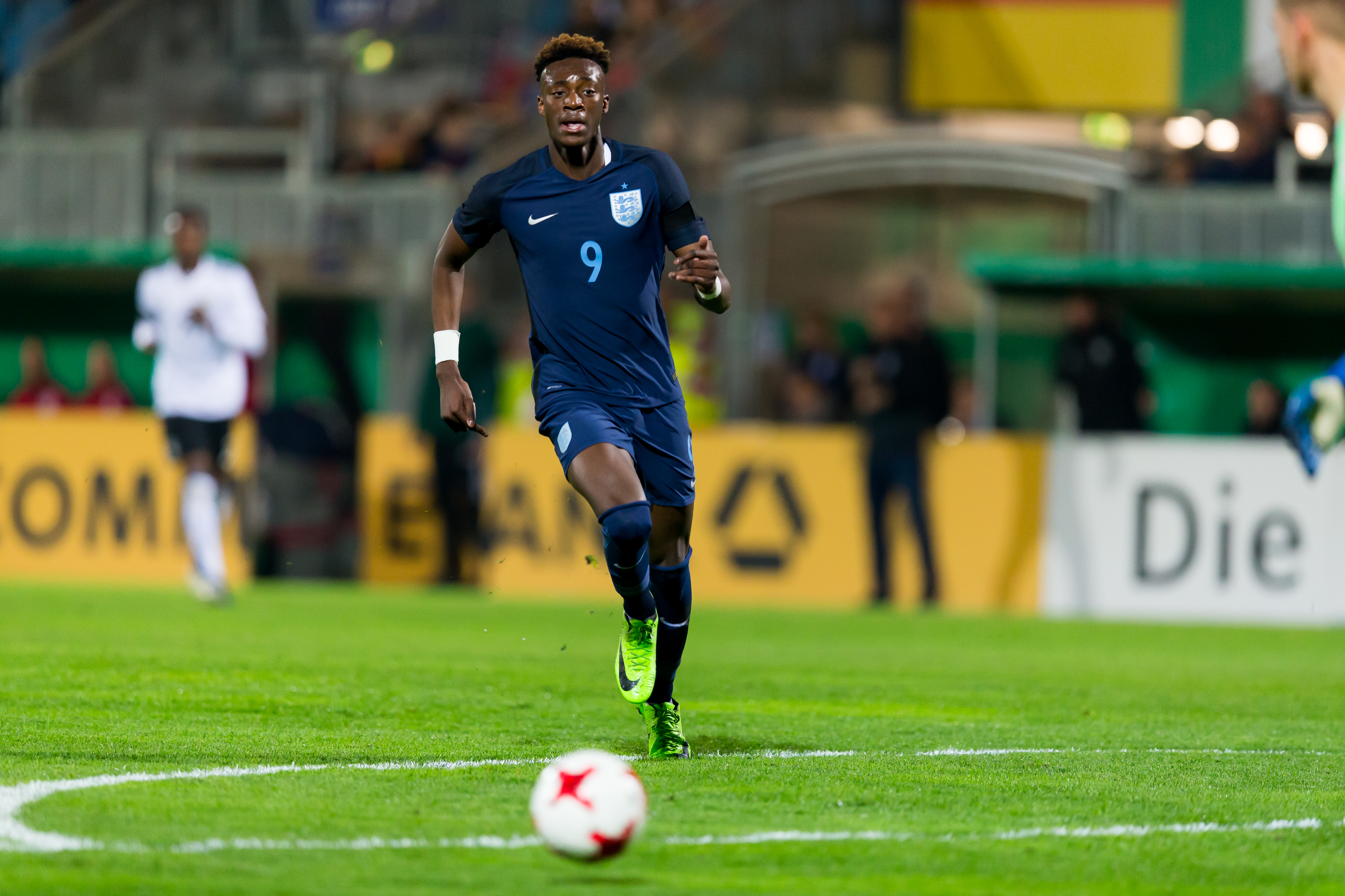 Football U21 Germany vs England (1:0) Team Germany 12 Julian Pollersbeck (1. FC Kaiserslautern) 1 Marvin Schwäbe (Dynamo Dresden) 23 Odisseas Vlachodimos (Panathinaikos Athen) 16 Kevin Akpoguma (Fortuna Düsseldorf) 3 Yannick Gerhardt (VfL Wolfsburg) 5 Matthias Ginter (Borussia Dortmund) 22 Benjamin Henrichs (Bayer 04 Leverkusen) 15 Marc-Oliver Kempf (SC Freiburg) 4 Niklas Stark (Hertha BSC) 13 Jeremy Toljan (1899 Hoffenheim) 2 Mitchell Weiser (Hertha BSC) 18 Nadiem Amiri (1899 Hoffenheim) 10 Maximilian Arnold (VfL Wolfsburg) 25 Hany Mukhtar (Brøndby IF) 7 Max Meyer (FC Schalke 04) 19 Janik Haberer (SC Freiburg) 21 Gideon Jung (Hamburger SV) 20 Levin Öztunali (1. FSV Mainz 05) 17 Maximilian Philipp (SC Freiburg) 9 Davie Selke (RB Leipzig) 27 Thilo Kehrer (FC Schalke 04) Team England 1 Jordan Pickford (Sunderland) 2 Mason Holgate (Everton) 13 Angus Gunn (Manchester City) 21 Christian Walton (Brighton) 16 Kortney Hause (Wolverhampton) 5 Jack Stephens (Southampton) 15 Rob Holding (Arsenal) 12 Joe Gomez (Liverpool) 3 Ben Chilwell (Leicester City) 6 Alfie Mawson (Swansea City) 22 Sam McQueen (Southampton) 4 Nathaniel Chalobah (Chelsea) 14 Will Hughes (Derby County) 20 Ruben Loftus-Cheek (Chelsea) 10 Lewis Baker (Vitesse Arnheim) 18 John Swift (Reading) 23 Jack Grealish (Aston Villa) 8 Harry Winks (Hotspur) 19 Cauley Woodrow (Fulham) 9 Tammy Abraham (Bristol City) 17 Solly March (Brighton) 11 Jacob Murphy (Norwich) during Fussball U21 Deutschland vs England at Brita-Arena, Wiesbaden, Hessen, Germany on 2017-03-24, Photo: Sven Mandel